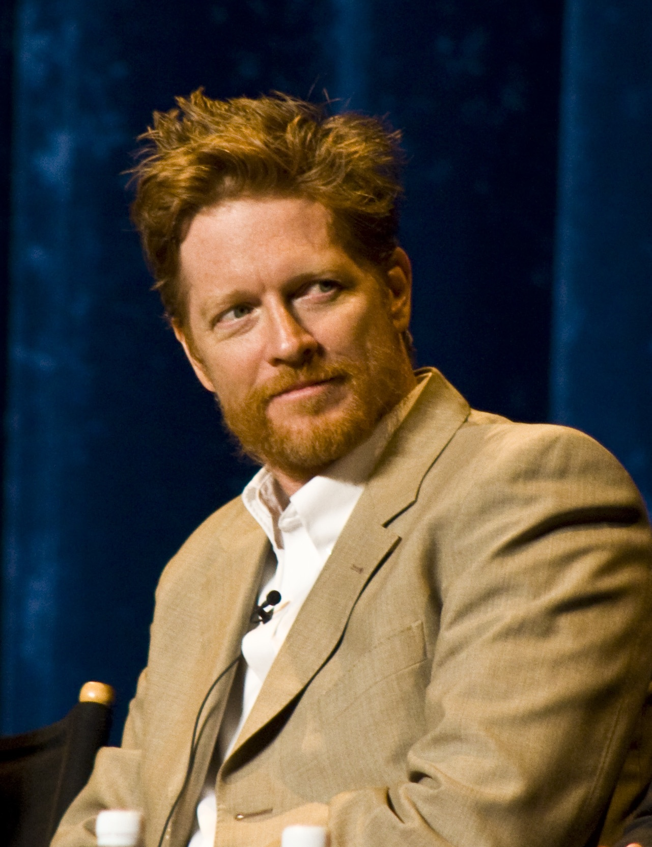 Actor Eric Stoltz at the 2009 Paleyfest, taking part of the Battlestar Galactica/Caprica panel.